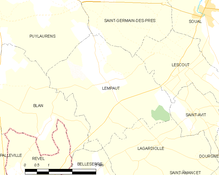 Map of French municipality Lempaut